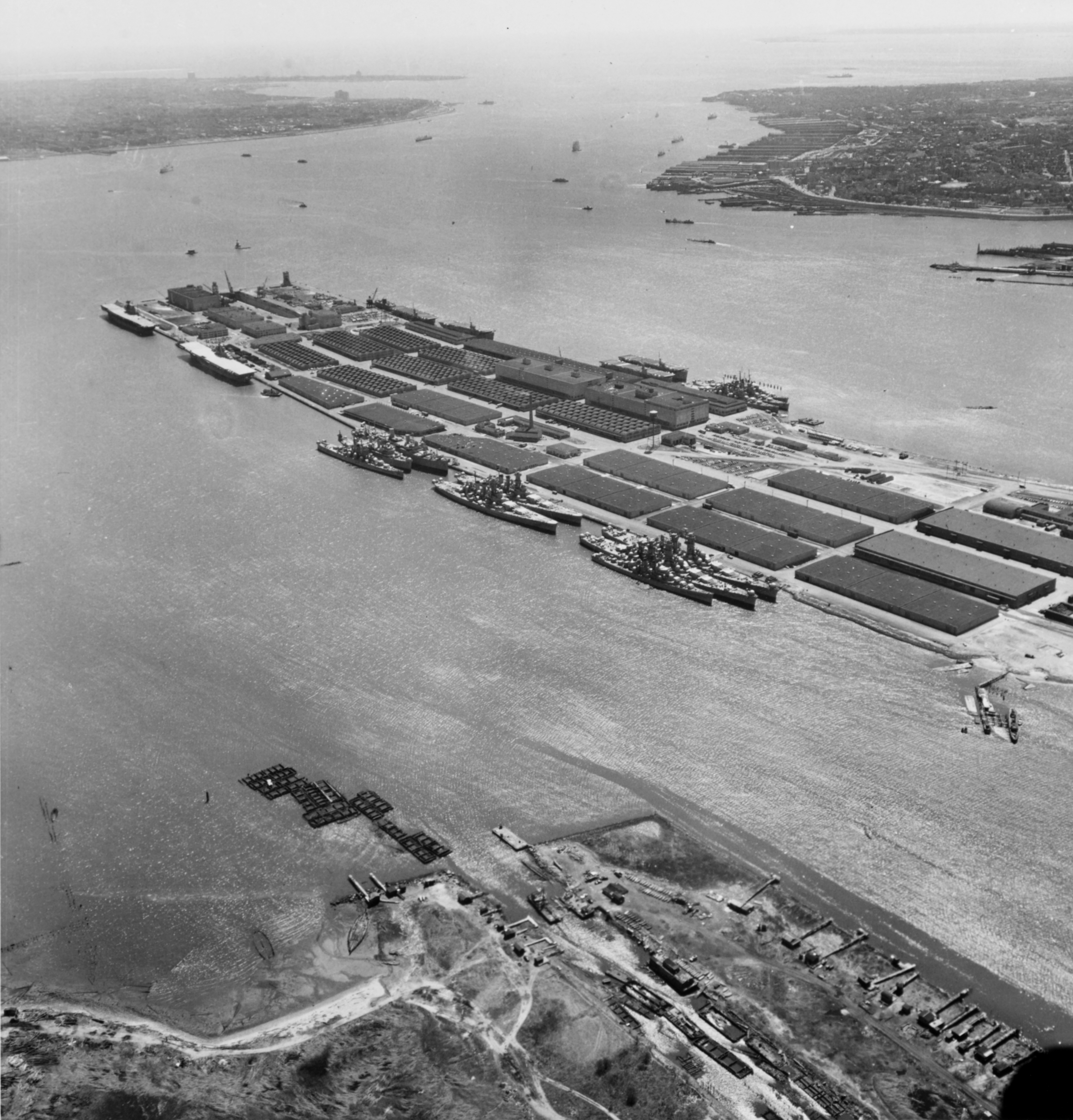 Aerial photograph of the Bayonne Naval Supply Depot, New Jersey (USA), on 15 April 1953 with ships in reserve. The two large ships at right on the near side of the peninsula are Alaska (CB-1) and Guam (CB-2). The next two ships astern are North Carolina (BB-55) and Washington (BB-56). Further astern are (from outboard to inboard) Fargo (CL-106), Albemarle (AV-5) and Wakefield (AP-21). The carriers Enterprise (CV-6) and Franklin (CV-13) are at the far left. Also present are the escort carriers Card (CVE-11), Croatan (CVE-25), Mission Bay (CVE-59), and Guadalcanal (CVE-60) along with the cruisers Providence (CL-82), Little Rock (CL-92), Spokane (CLAA-120) and Fresno (CLAA-121). One of the two CLAAs is tied up outboard of the Alaskas.